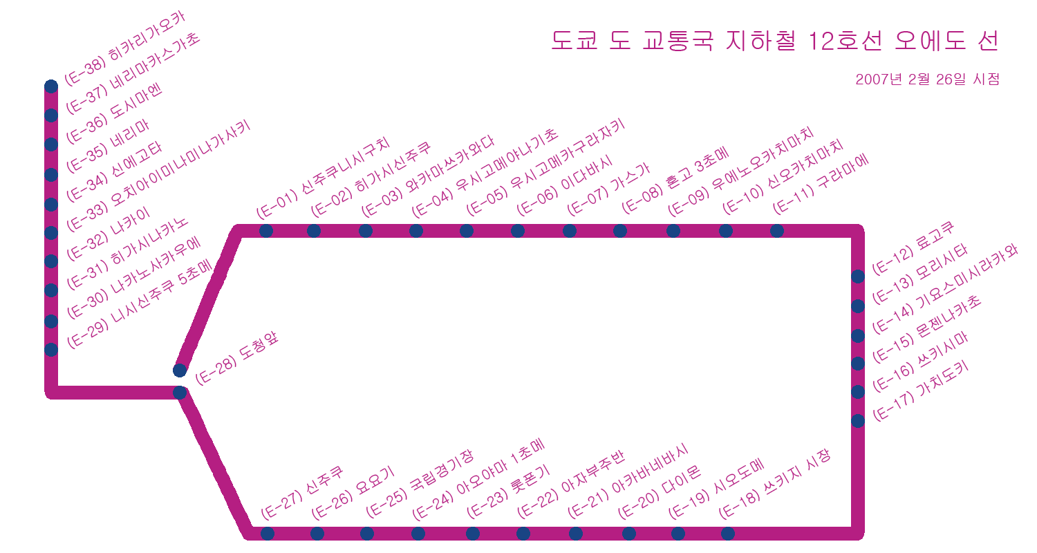 Toei Oedo Line map in Korean